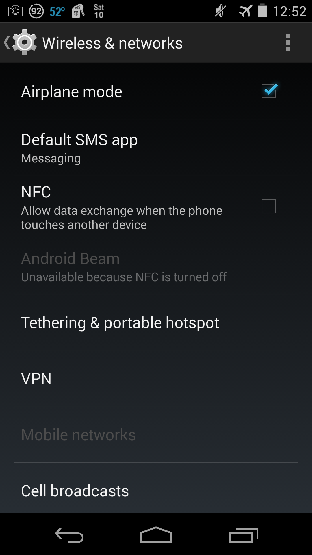 Nexus 5; Android 4.4.2, in Airplane mode